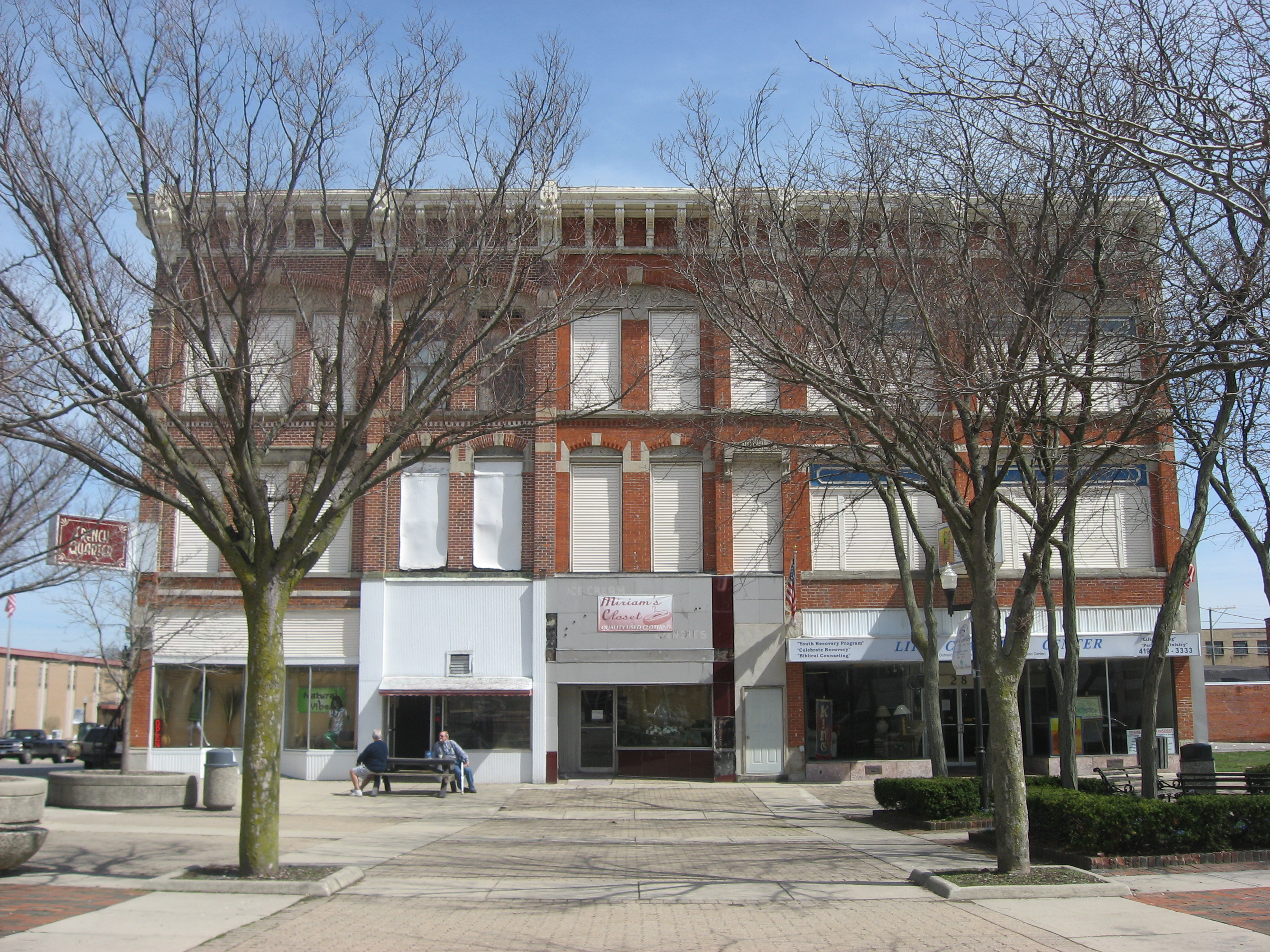 Front of the Union Block, located at 28-38 Public Square in downtown Lima, Ohio, United States. Built in 1878, it is listed on the National Register of Historic Places.